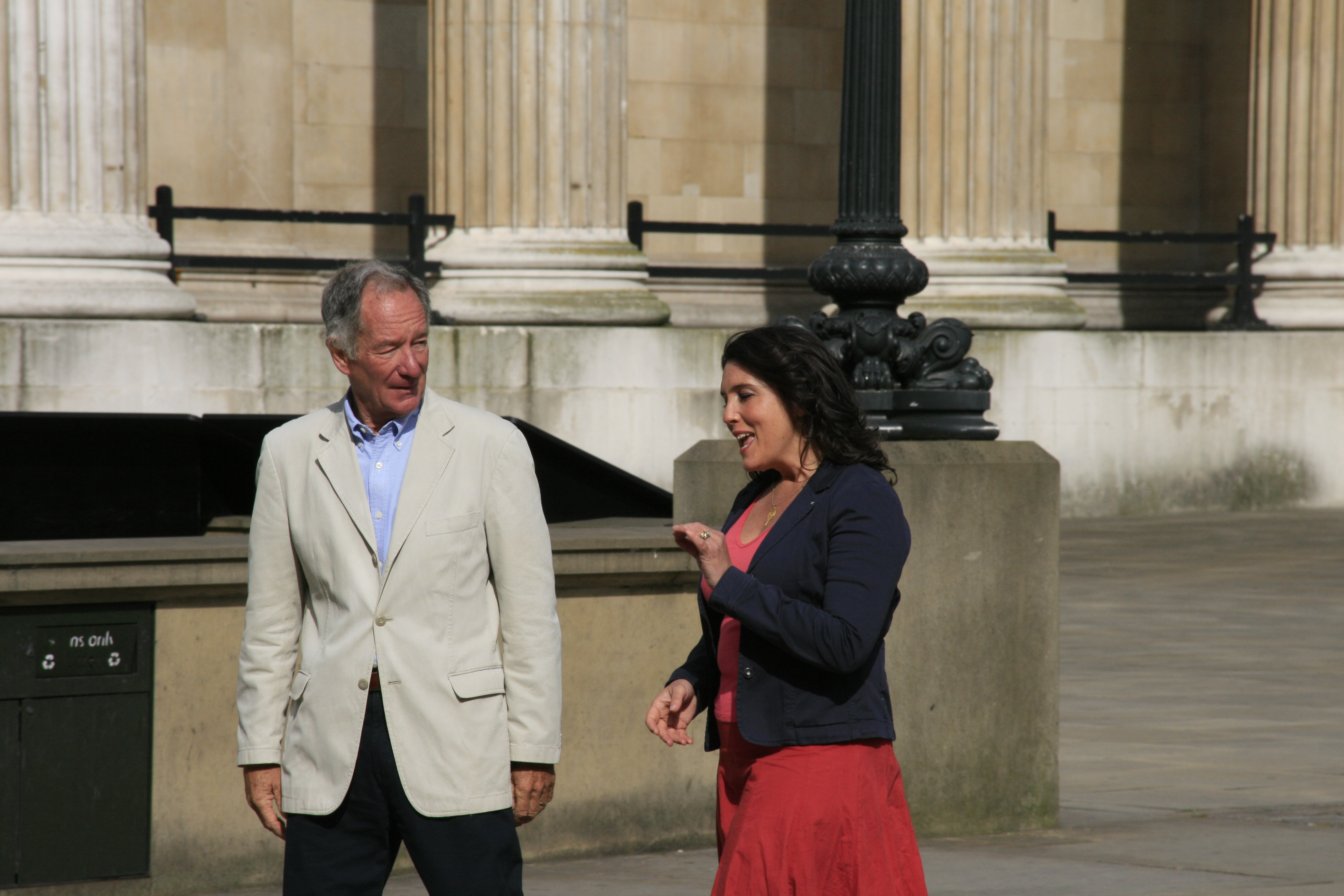 Michael Buerk and Bettany Hughes during the filming of Britain's Secret Treasures at the British Museum, London, 23 June 2012.